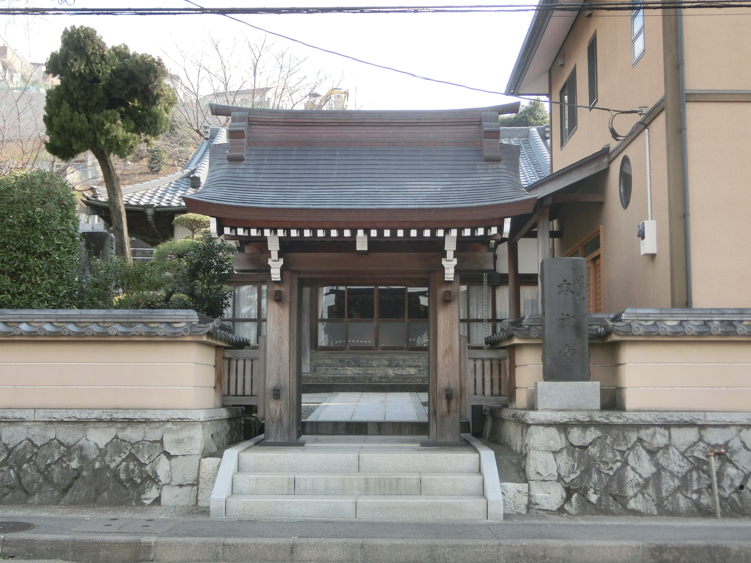 Honryu-ji (Yokohama)